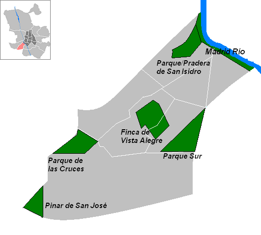 Principales Zonas verdes de Carabanchel